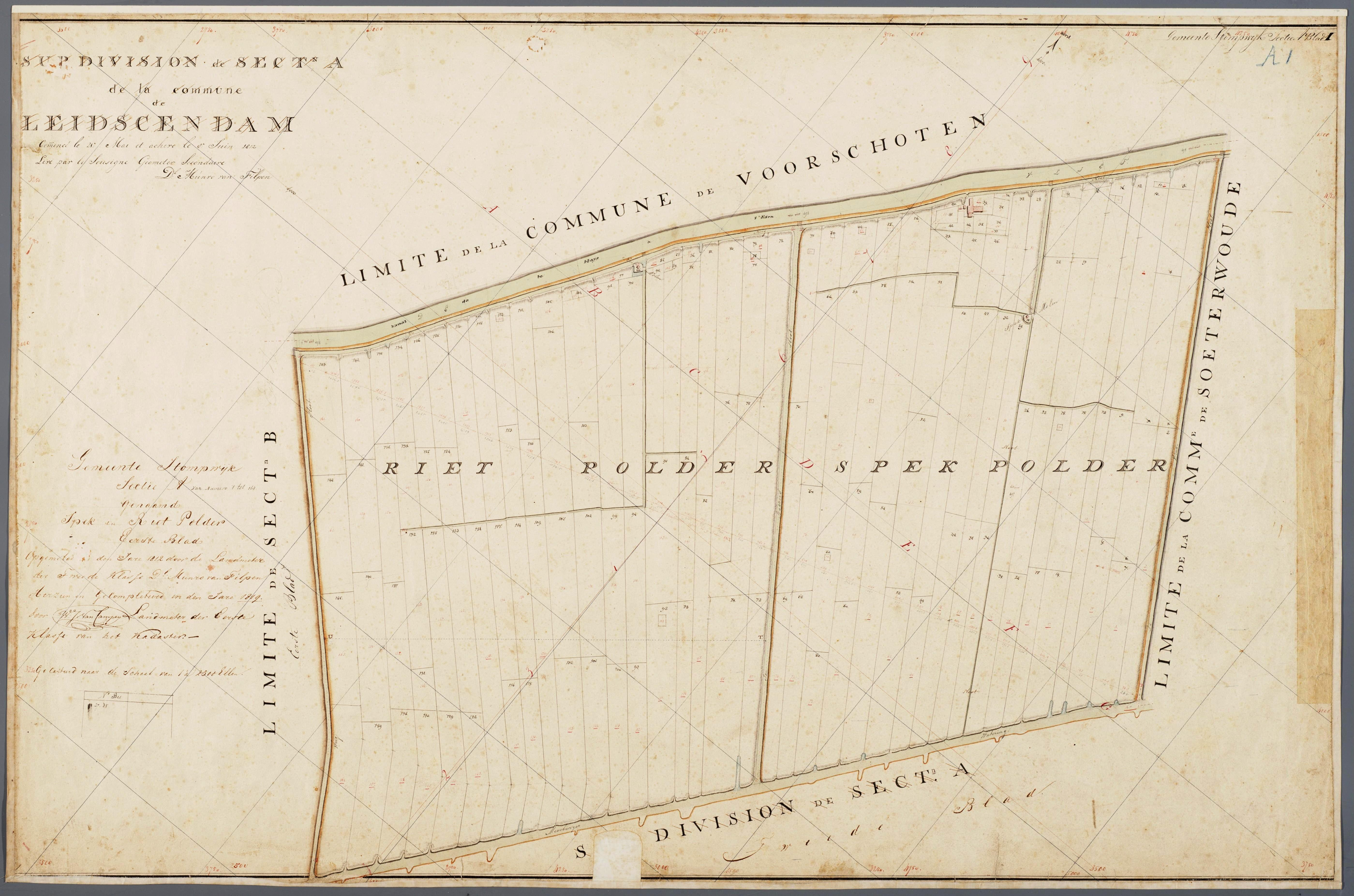 Cadastral map of 1812-1819 of the former Riet Polder and Spek Polder, both in Leidschendam-Voorburg (Province of South Holland, Netherlands). At the time both polders were part of the municipality of Stompwijk. In the 1970s and '80s both polders were excavated for sand. Currently, they jointly form a large -and deep- lake called Vlietlandplas.